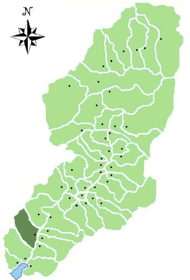 Map of the Comune di Rogno, Valle Camonica